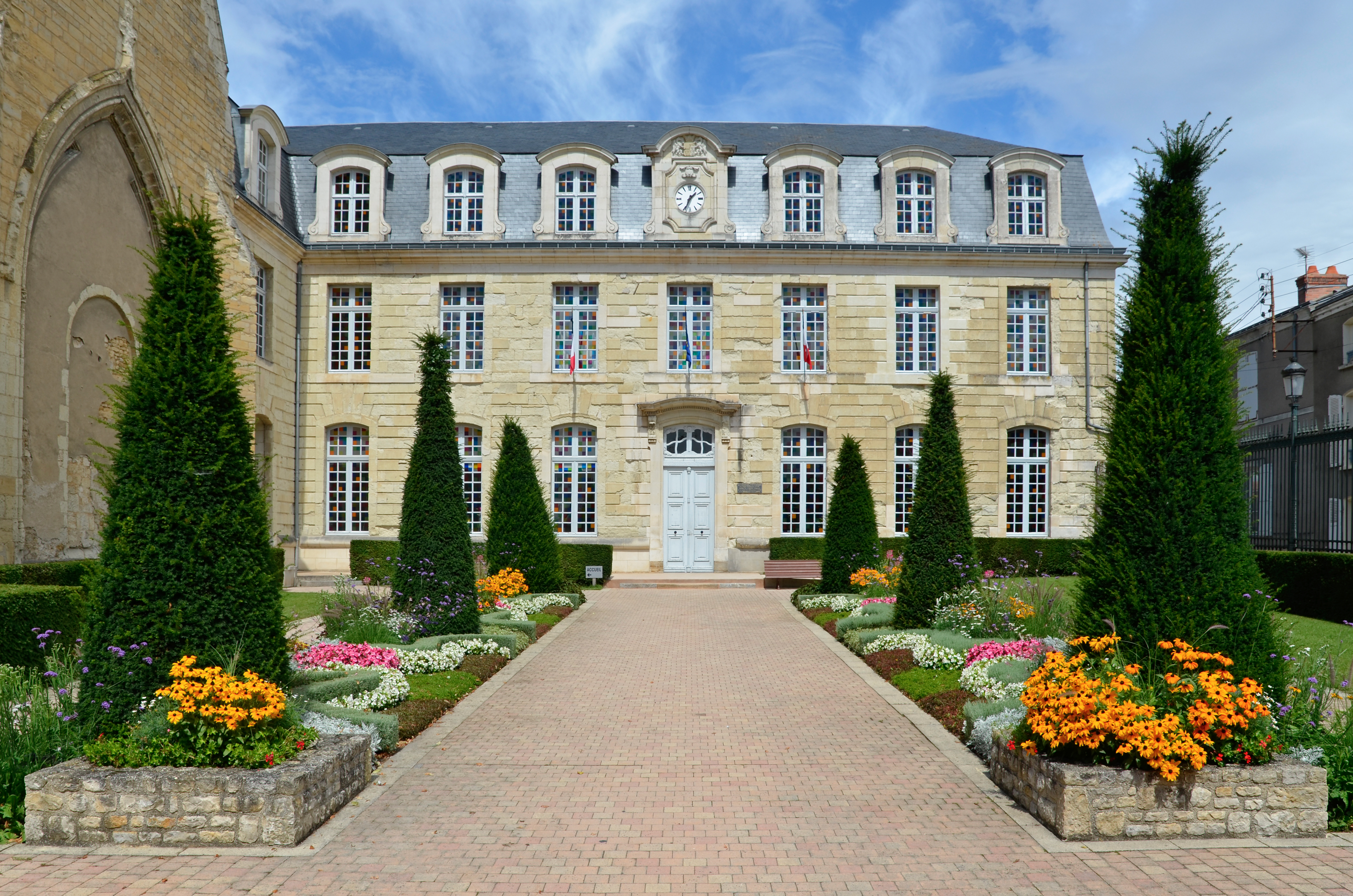 City hall of Thouars, part of Saint-Laon ancient abbey - Thouars, Deux-Sèvres .